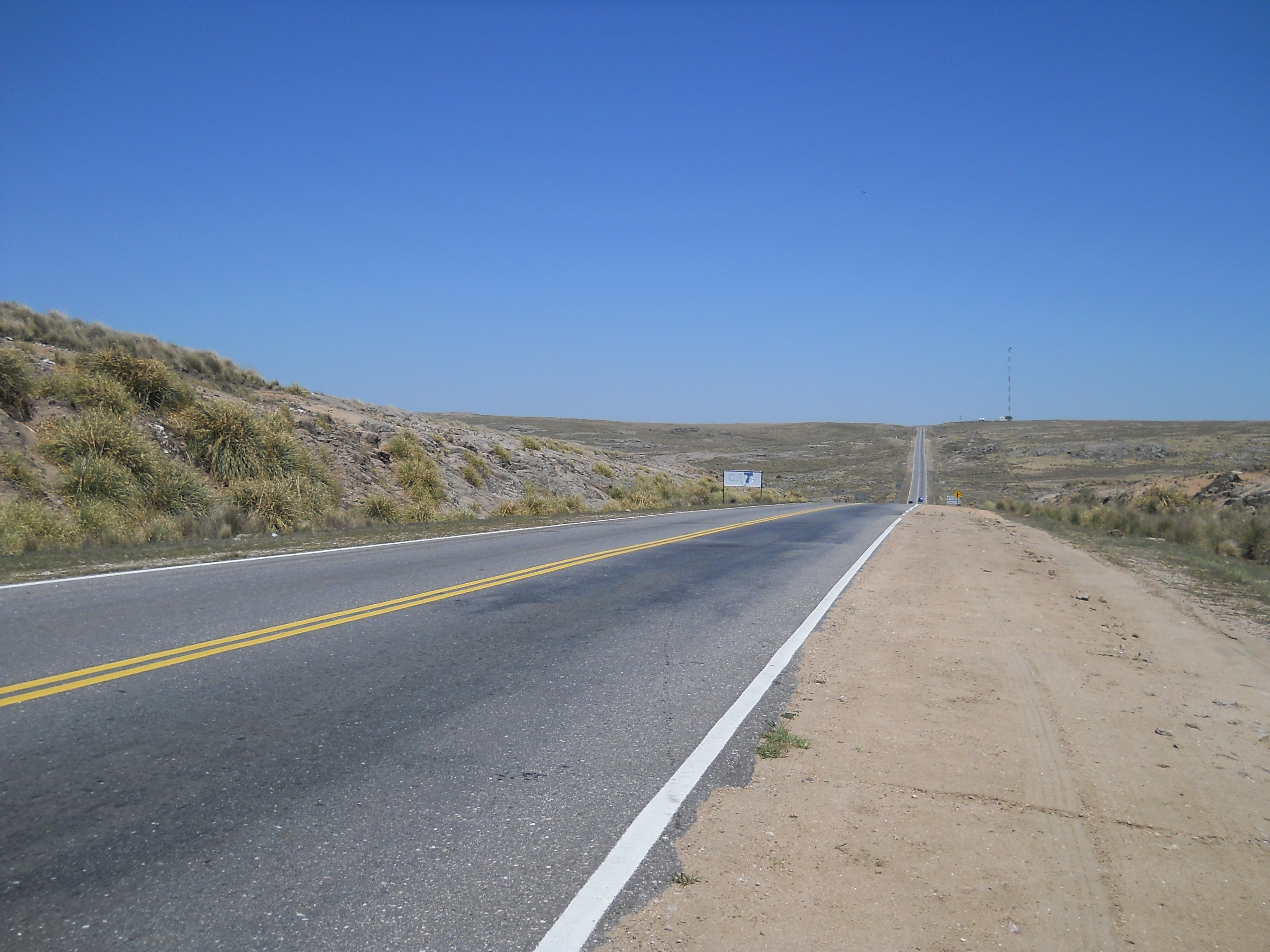 Altas Cumbres route, in the Pampa de Achala, to more than 2,300 meters.